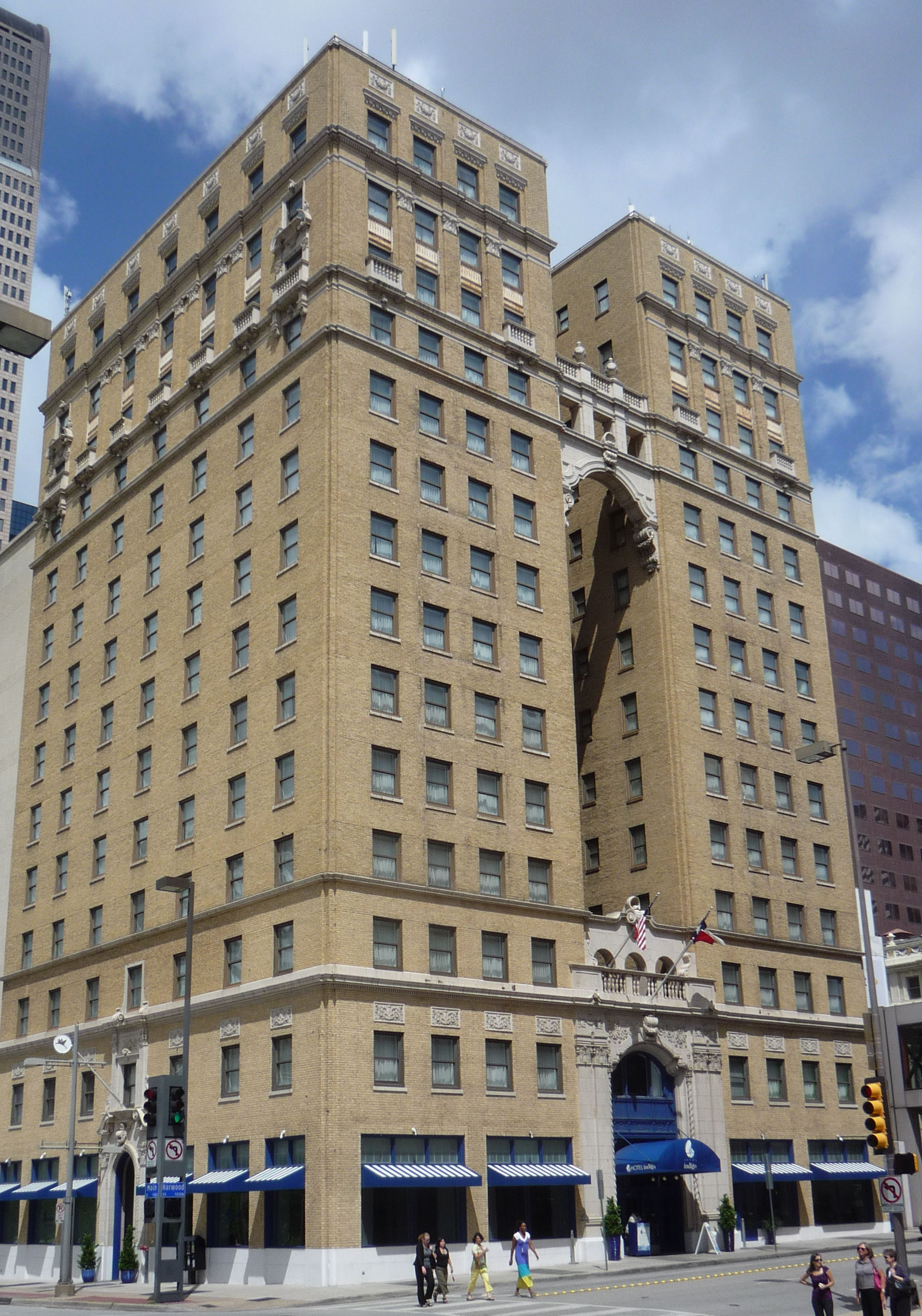 Former Hilton Hotel building at 1933 Main St. in Dallas, Texas